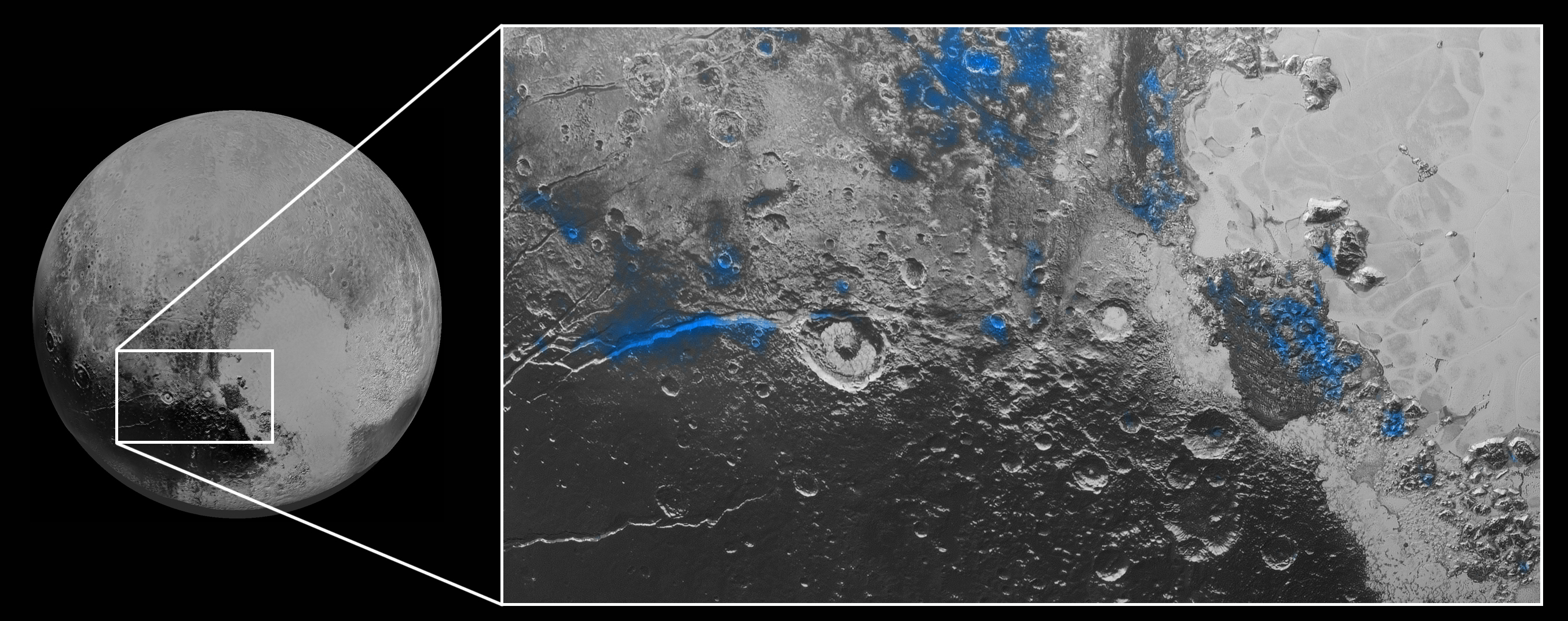 Water Ice on Pluto as per New Horizons